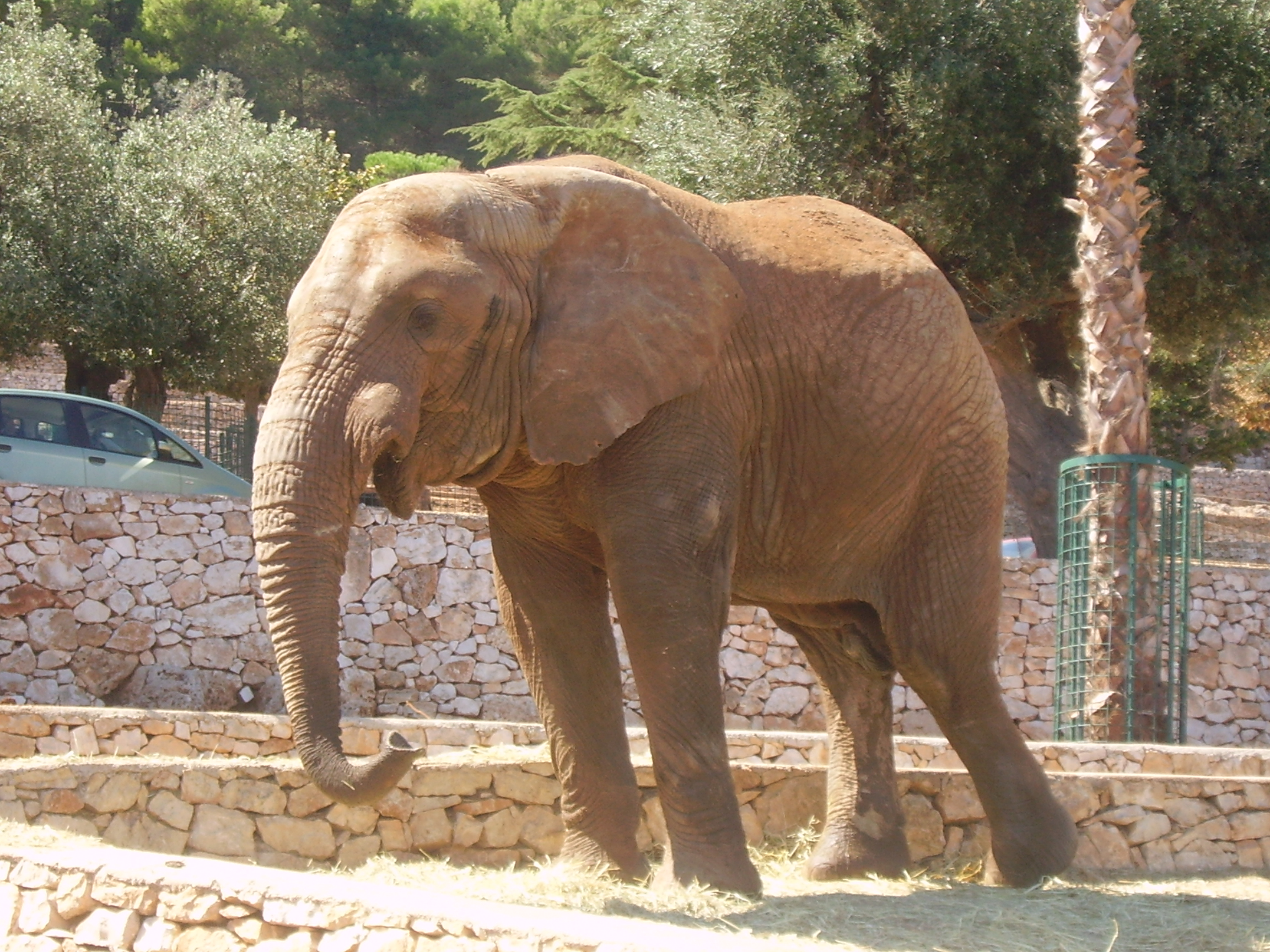 An elephant at the Fasano Zoo Safari